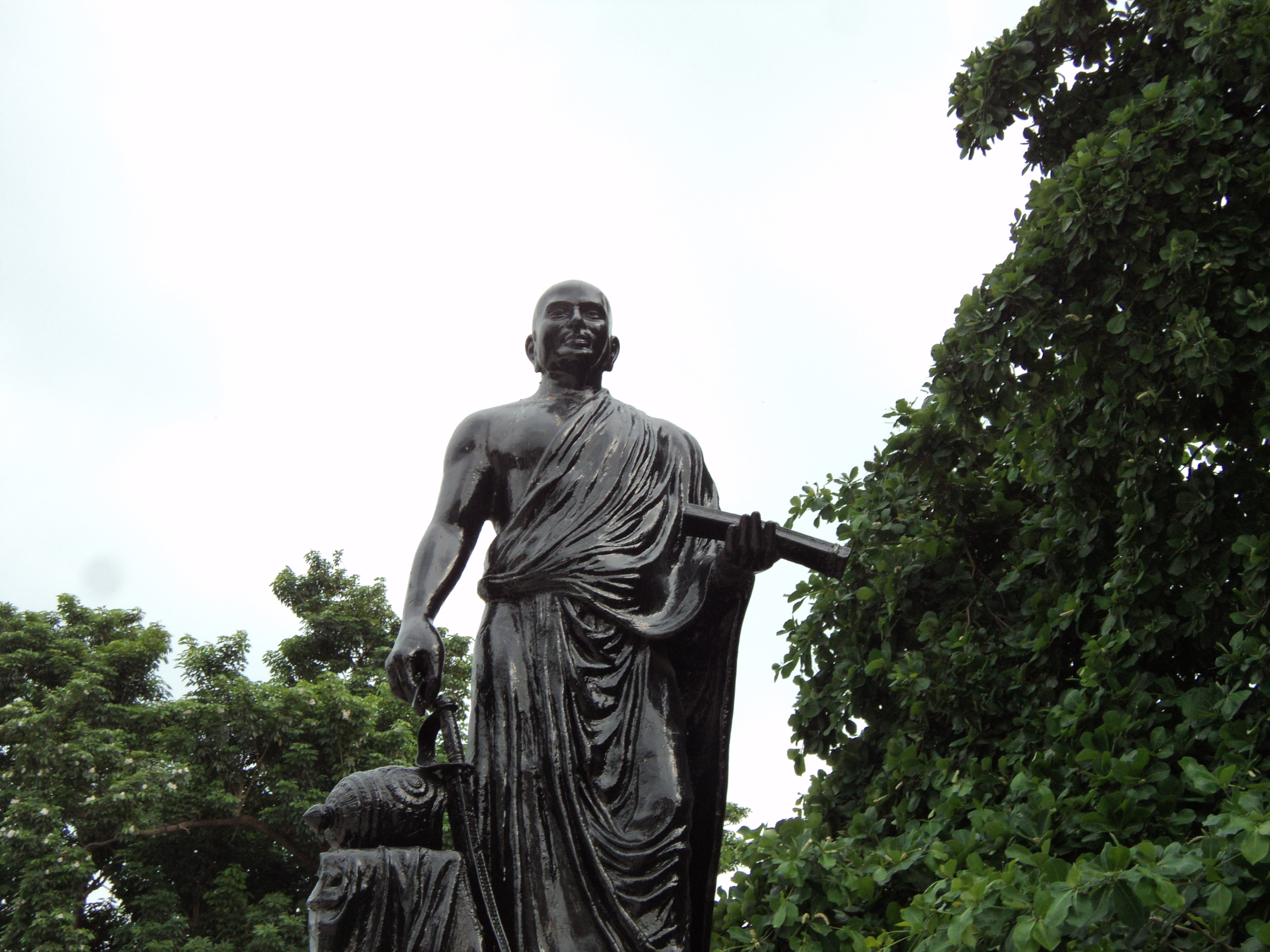 Ilango Adigal statue at Marina Beach, Chennai